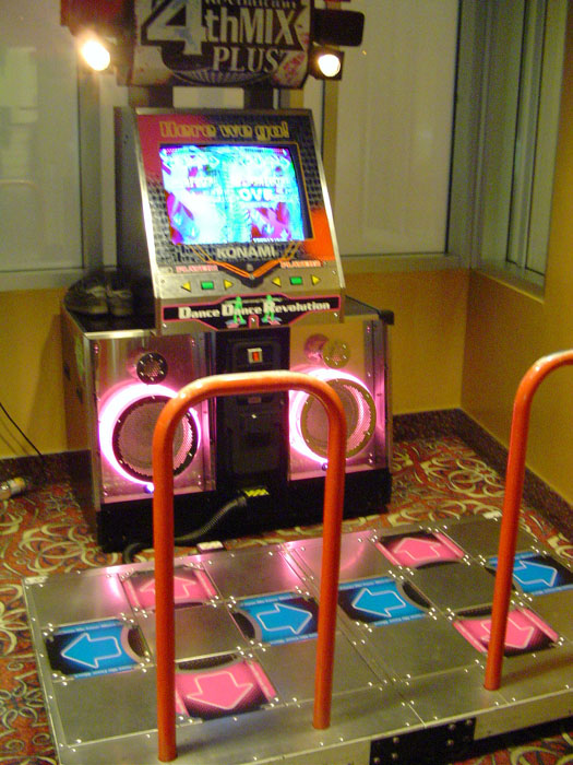 This is a DDR 4th Mix Plus machine, Asian version, located inside Pacific Theaters, at 2000 Wible Road, Bakersfield, California. The photo was taken on January 28th, 2005, by Poiuyt Man. He accidentally left his shoes on the left ledge before taking the picture. The image was later digitally altered to compensate for overexposure of the game's monitor.